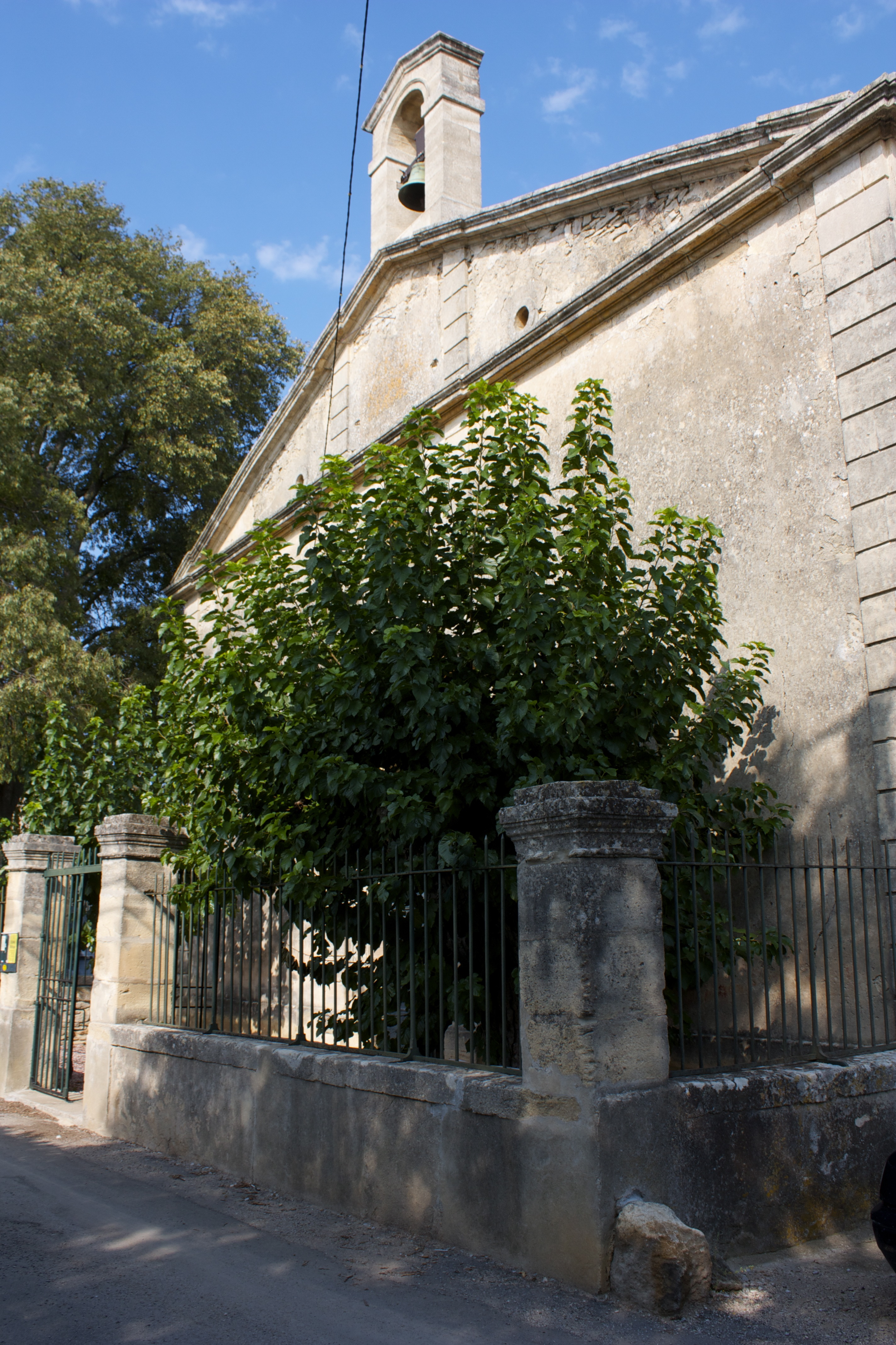 Protestant Temple of Congénies, built between 1817 and 1818 by the parishioners themselves.